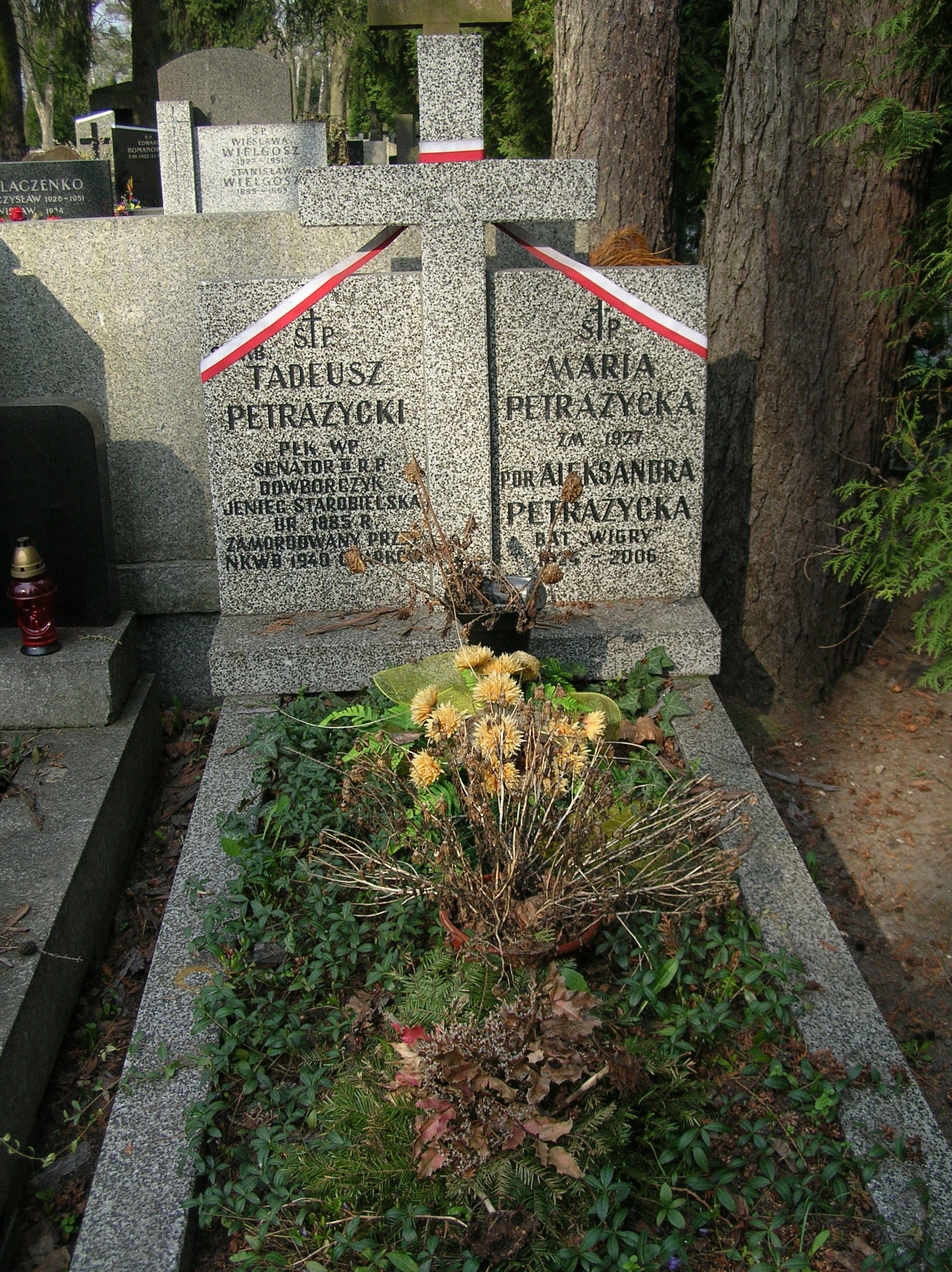 Tomb of Tadeusz Petrażycki